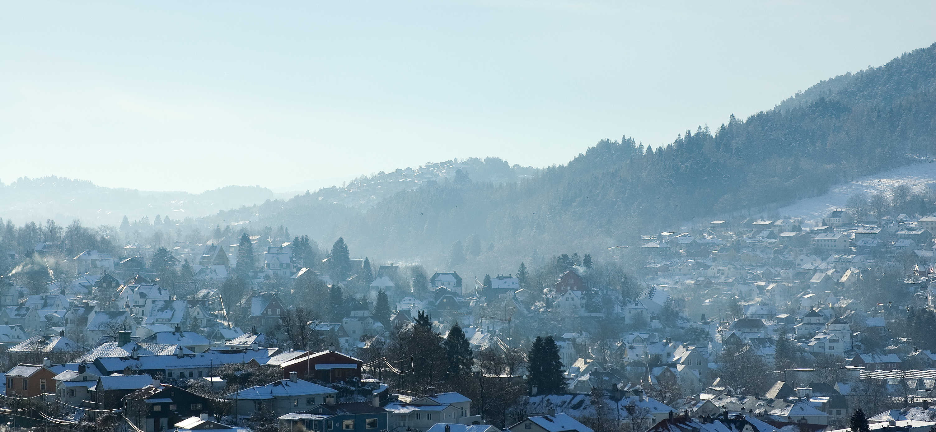 View from Landås in Bergen, Norway; foreground: Fridalen, Wergeland, Storetveit; right: Fredlund; background: Bønes, Søviknes, Sandsli.